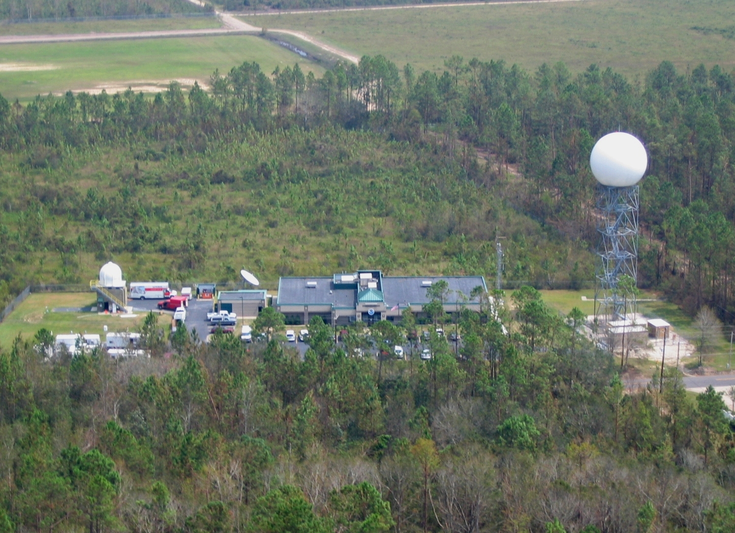 The NOAA National Weather Service forecast office at Slidell just north of Lake Pontchartrain, including the WSR-88D NEXRAD.